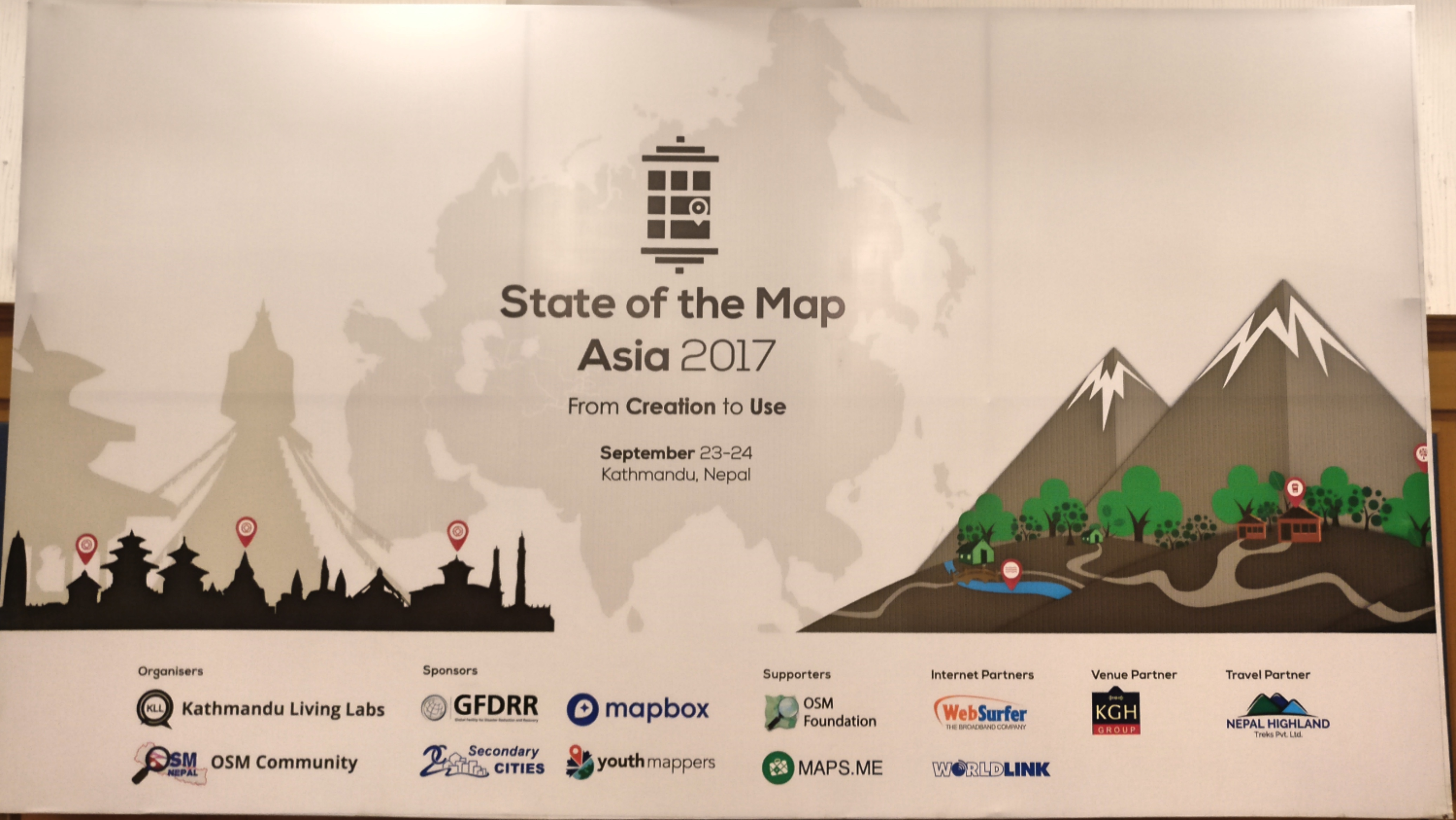 State of the Map Asia 2017 Conference Poster displayed during the conference